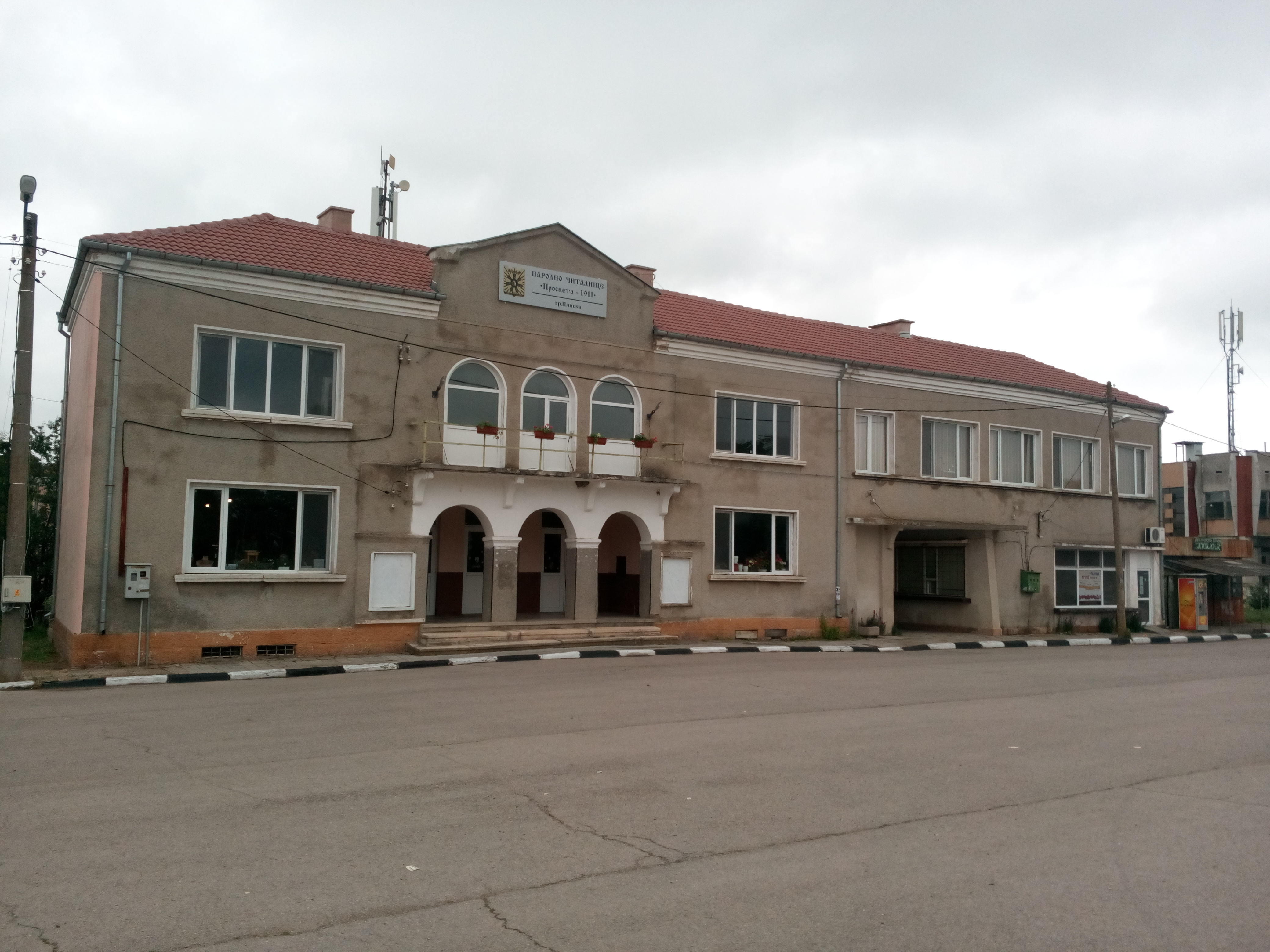 Culture center Prosveta 1911,Pliska Bulgaria